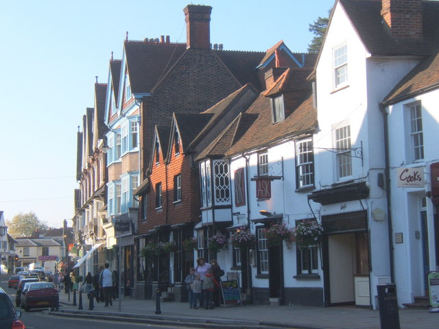 High Street, Reigate